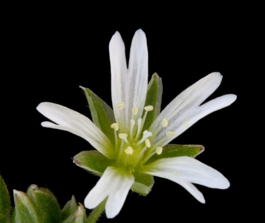 Cerastium sp.